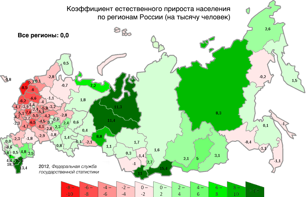 Natural population growth rates by region in 2012